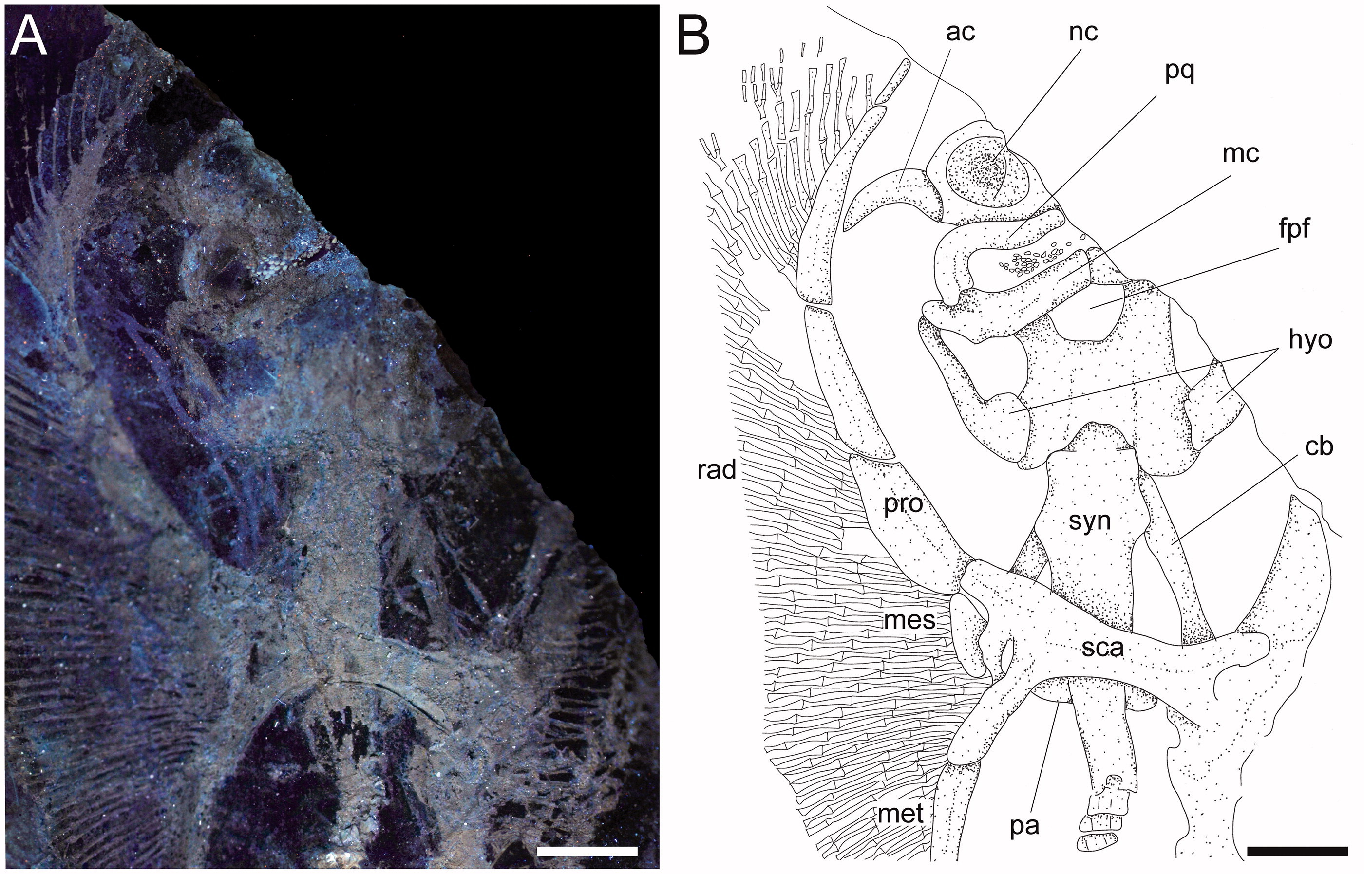 Ostarriraja parvagen. et sp. nov. from the early Miocene of Upper Austria, holotype, NHMW 2005z0283/0097. A, closeup of the head and pectoral region of the holotype under UV light; B, restoration. Abbreviations: ac, antorbital cartilage; cb, 5th ceratobranchial; fpf, fronto-parietal fontanelle; hyo, hyomandibula; mc, Meckel’s cartilage; mes, mesopterygium; met, metapterygium; nc, nasal capsule; pa, pectoral arch; pq, palatoquadrate; pro, propterygium; rad, radials; syn, synarcual. Scale bars: 5 mm.